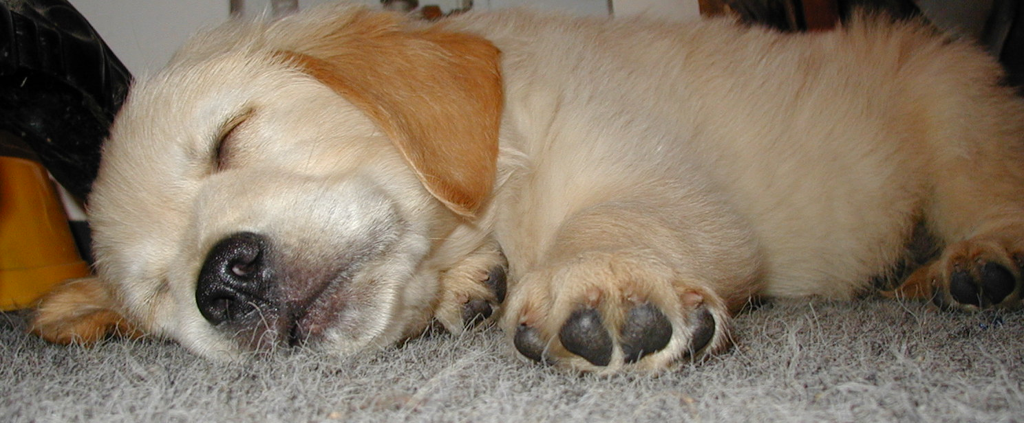 Golden Retriever (* 13 Jun 2005). Picture taken and uploaded by Kessa Ligerro.